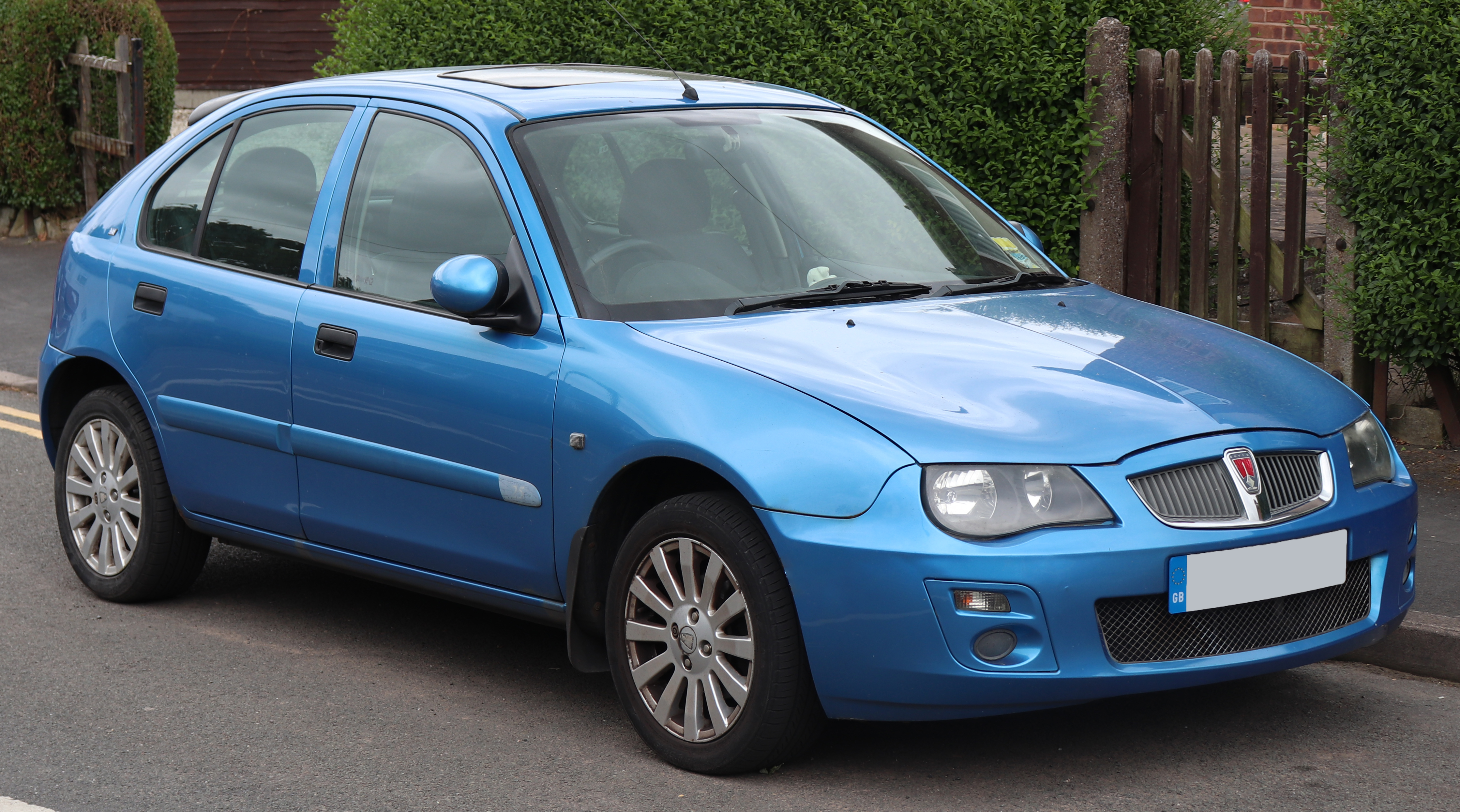 2005 Rover 25 GLi 1.4 Taken in Leamington Spa